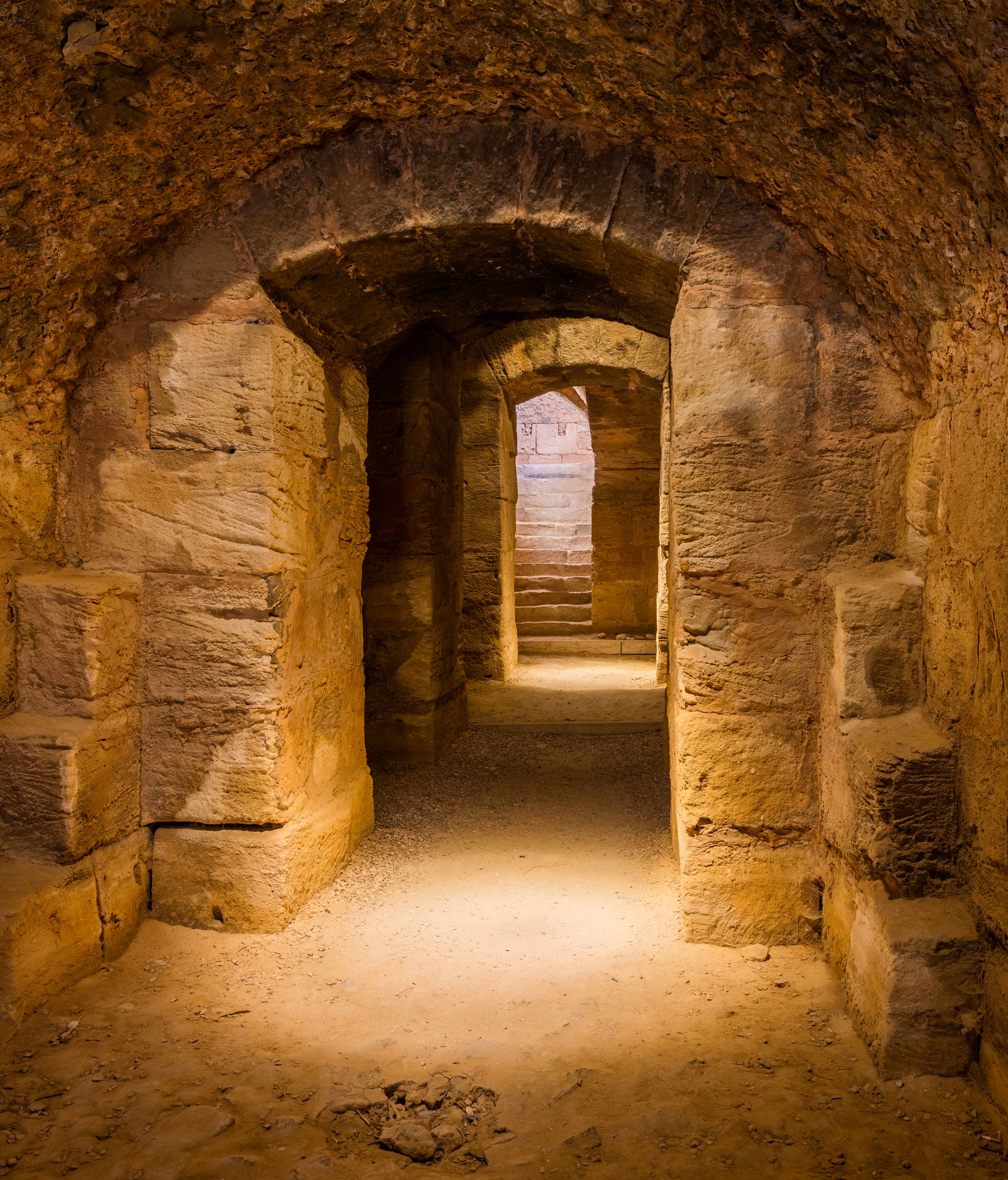 Hypogeum of the Amphitheatre of El Jem, an archeological site in the city of El Djem, Tunisia. This spot of the hypogeum is the place where the gladiators went up to the gate of the arena when the games started. The amphitheatre, a UNESCO World Heritage Site since 1979, was built around 238 AD, when the modern Tunisia belonged to the Roman province of Africa. It is the third biggest amphiteatre and one of the best preserved Roman ruins in the world with capacity for 35,000 spectators within 148 metres (486 ft) and 122 metres (400 ft) long axes and unique in Africa.